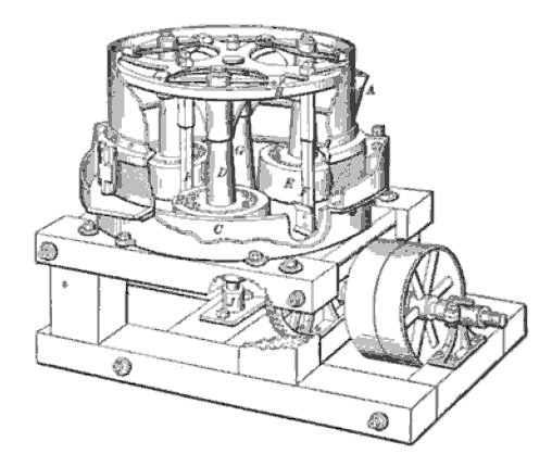 Huntington centrifugal roller mill - mining equipment